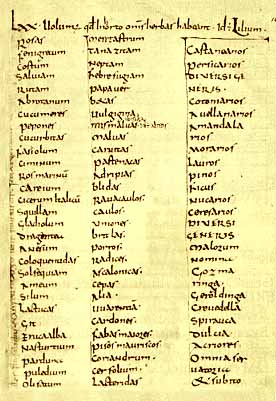 Page of the Capitulare de villis vel curtis imperii, Chapter 70